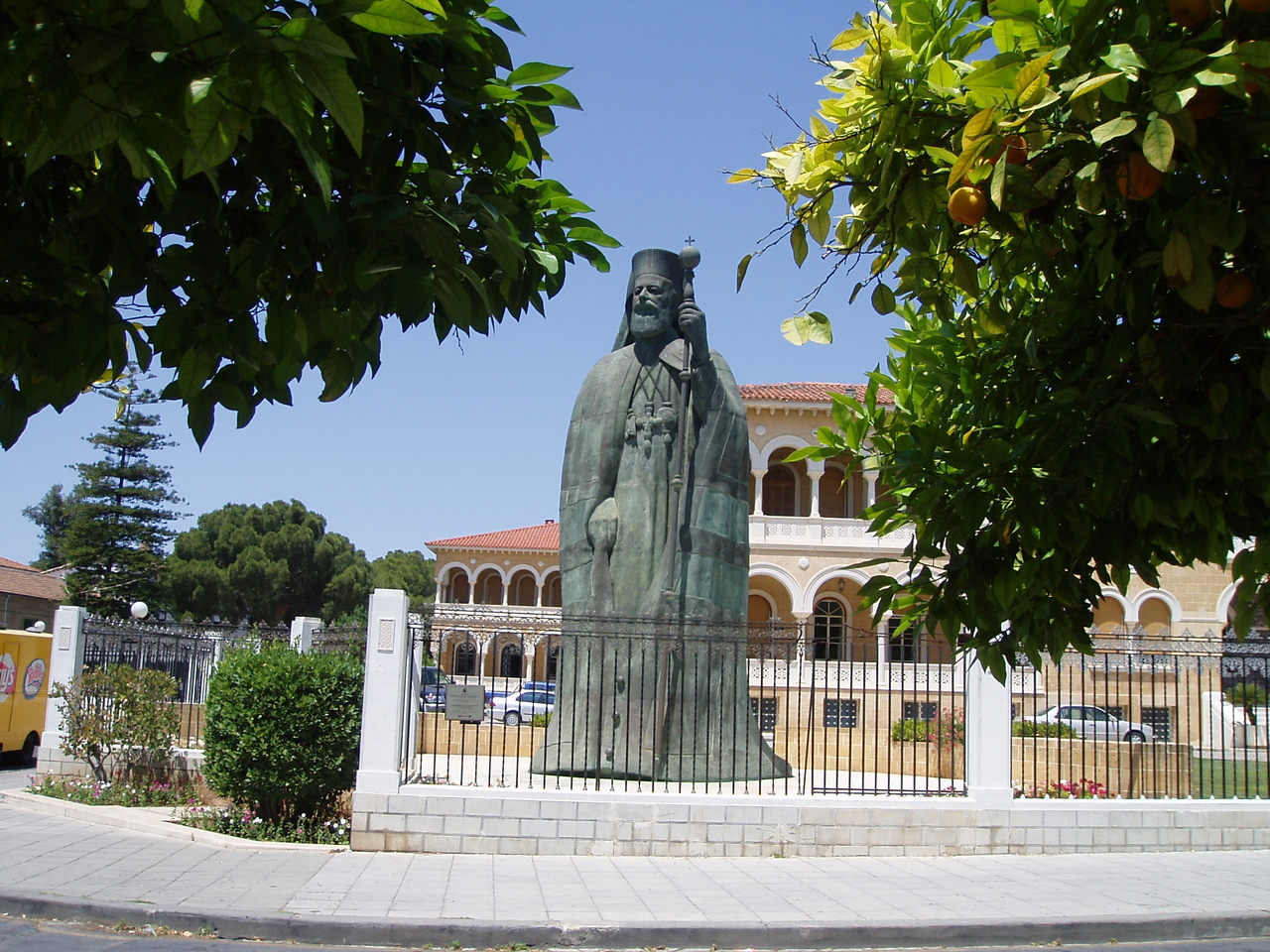 Statue of Archbishop Makarios outside his palace at Nicosia, capital of Cyprus. The Makarios statue was 2009 to Kykkos Monastery (Troodos-Mountains) removed.